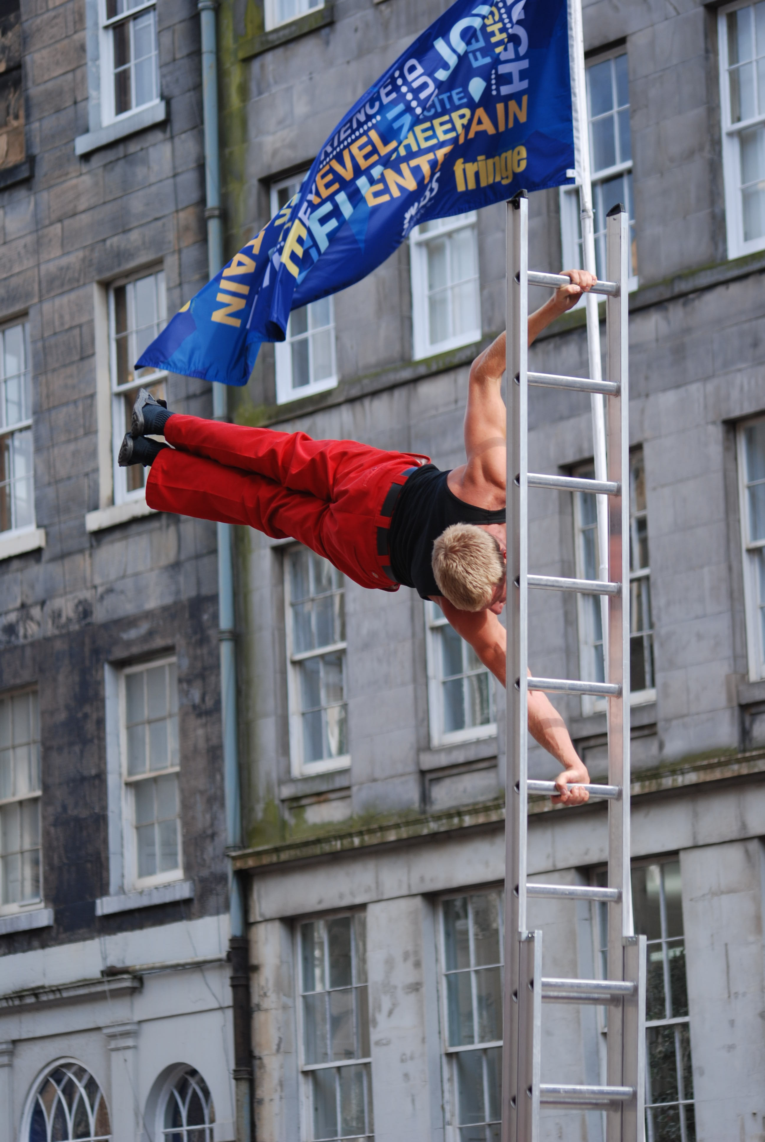 Man performing on ladder on the street in Edinburgh during Edinburgh Festival 2007